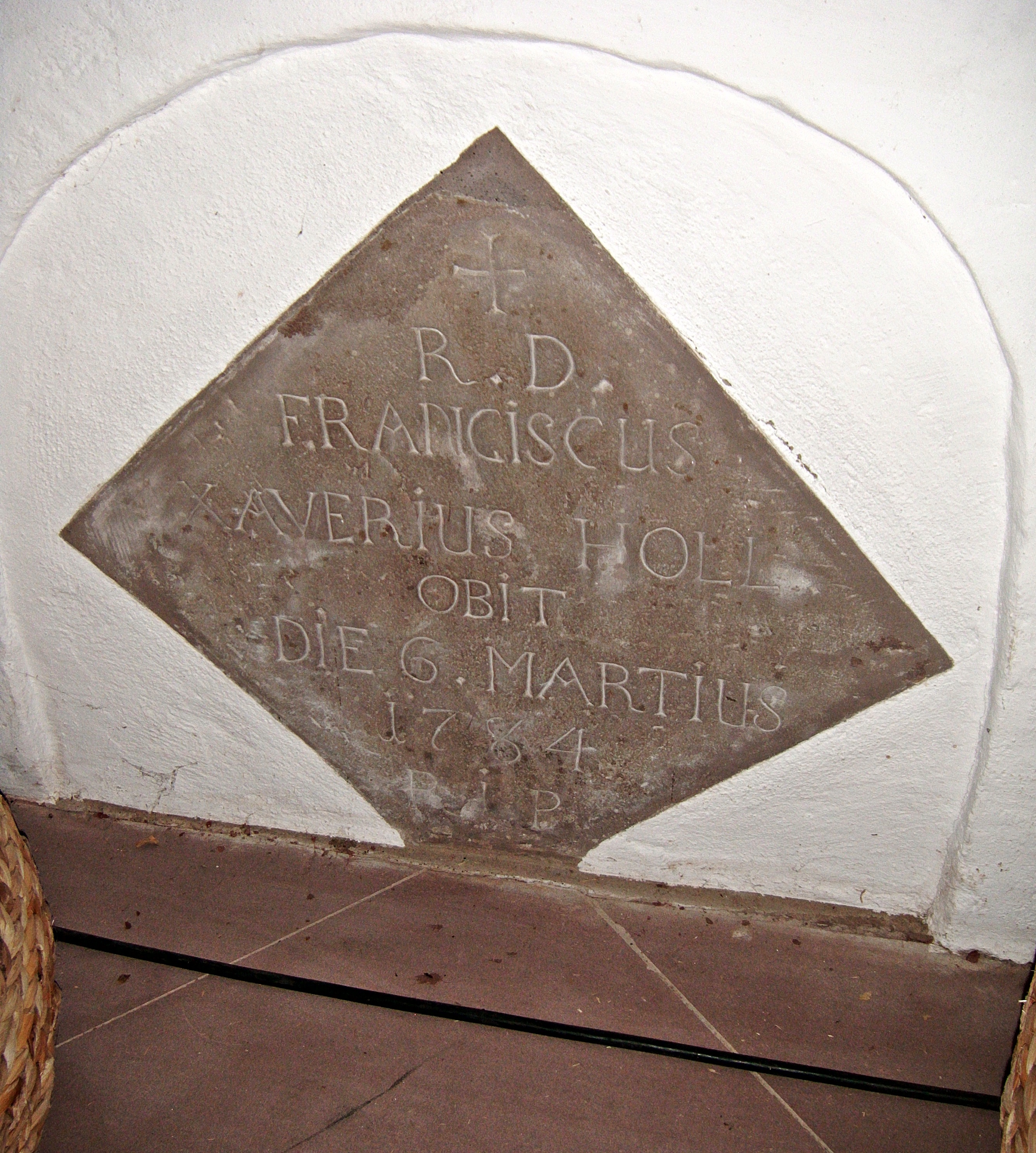 Franz Xaver Holl, Jesuit, (1720-1784), Grab Jesuitenkirche Heidelberg